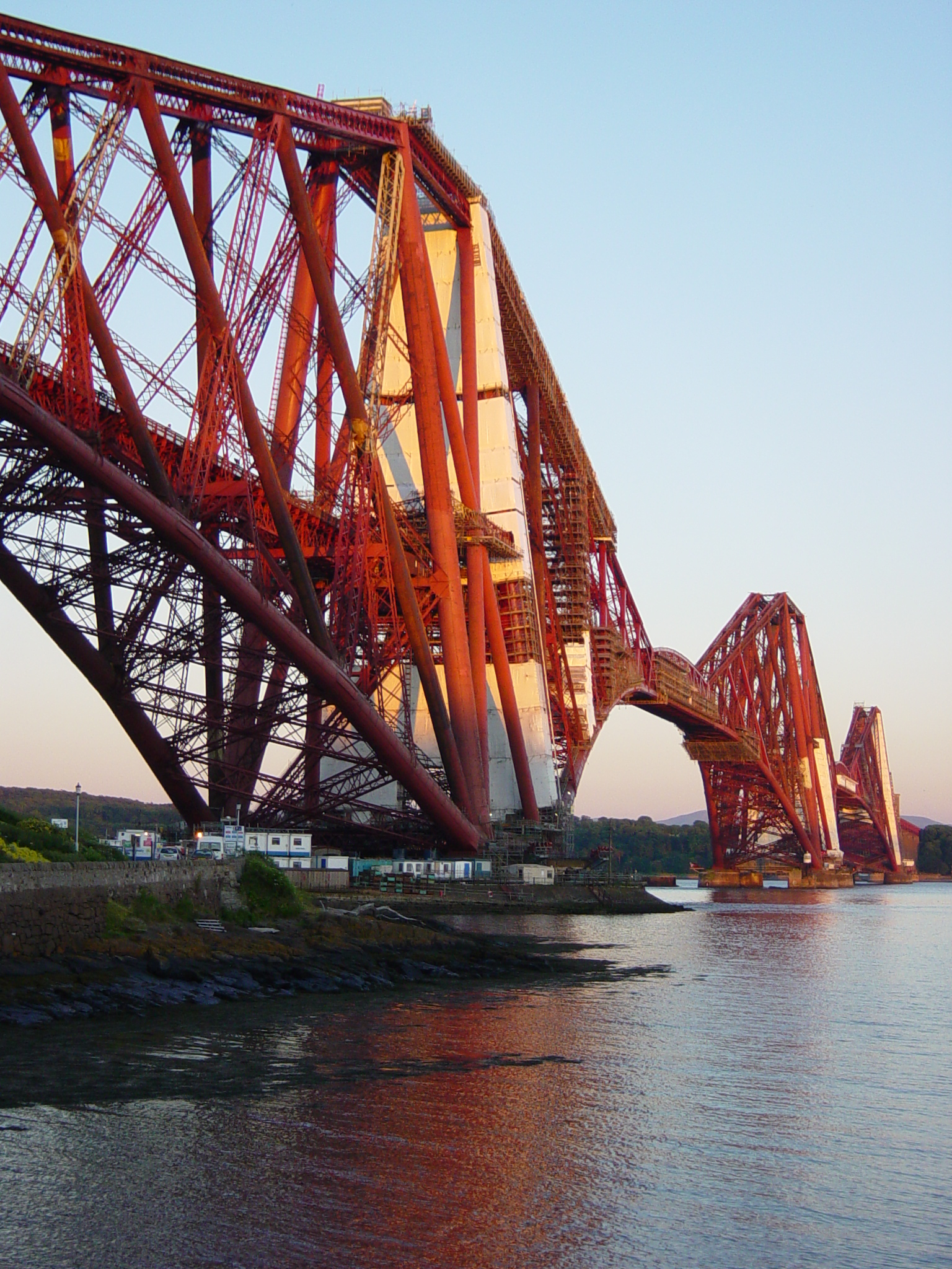 The Forth Railway Bridge taken by Euchiasmus (me) on 27th June 2005 from the northern end. It was 21:50 and still sunshine (long days in the summer when you're as far north as this).